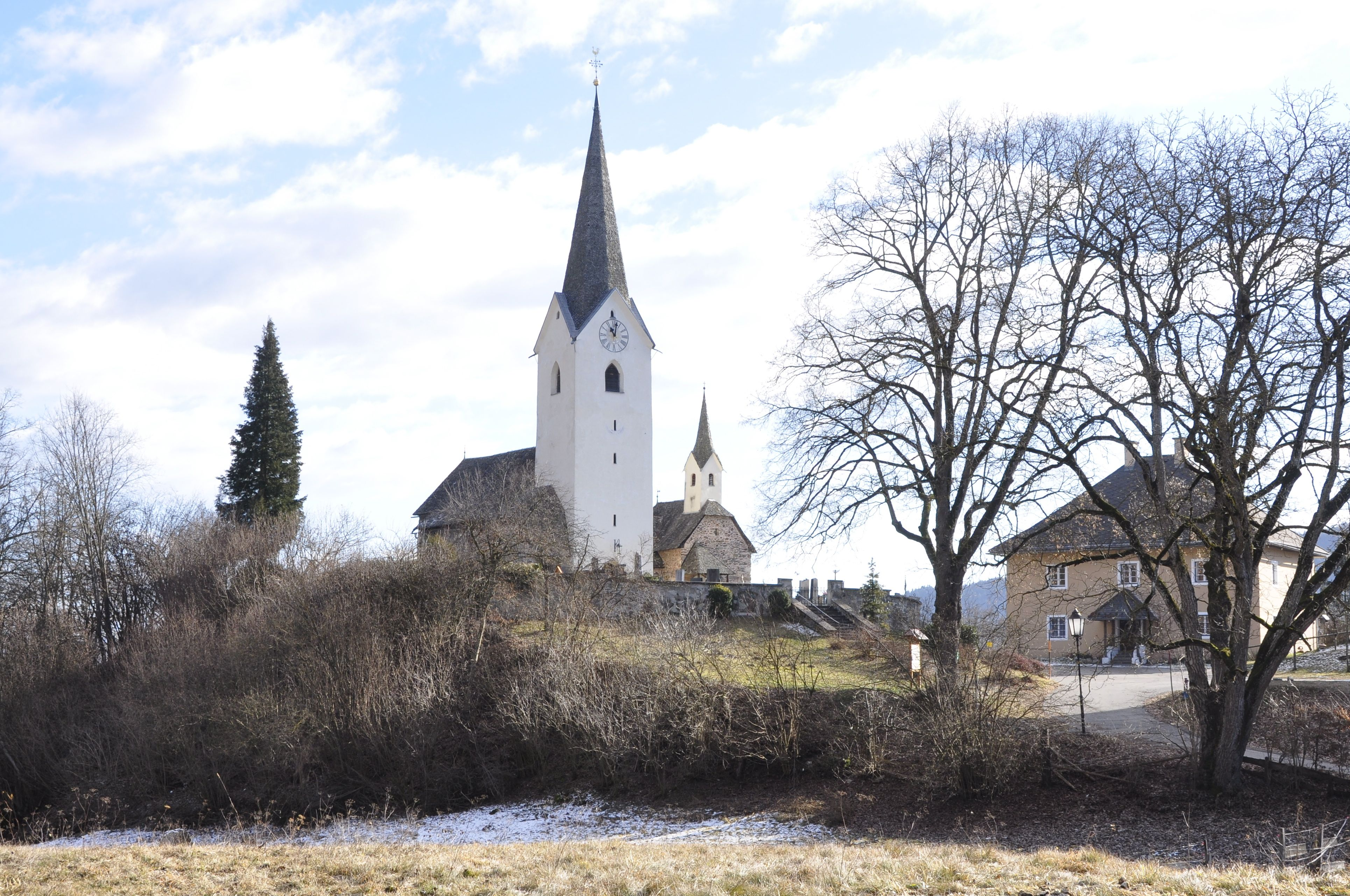 Parish church Saints Peter and Paul and rectory on Pfalzstrasse in Karnburg, market town Maria Saal, district Klagenfurt Land, Carinthia, Austria, EU